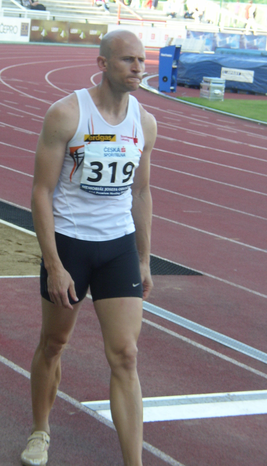 Athlete Stephan louw of Namibia preparing for his attempt in long jump at 17th edition of the Josef Odložil Memorial (EAA Premium Meeting, Na Julisce Stadium, Prague, Czech Republic, 14 June 2010). Louw ranked fifth in the competition with 7.76 m mark.